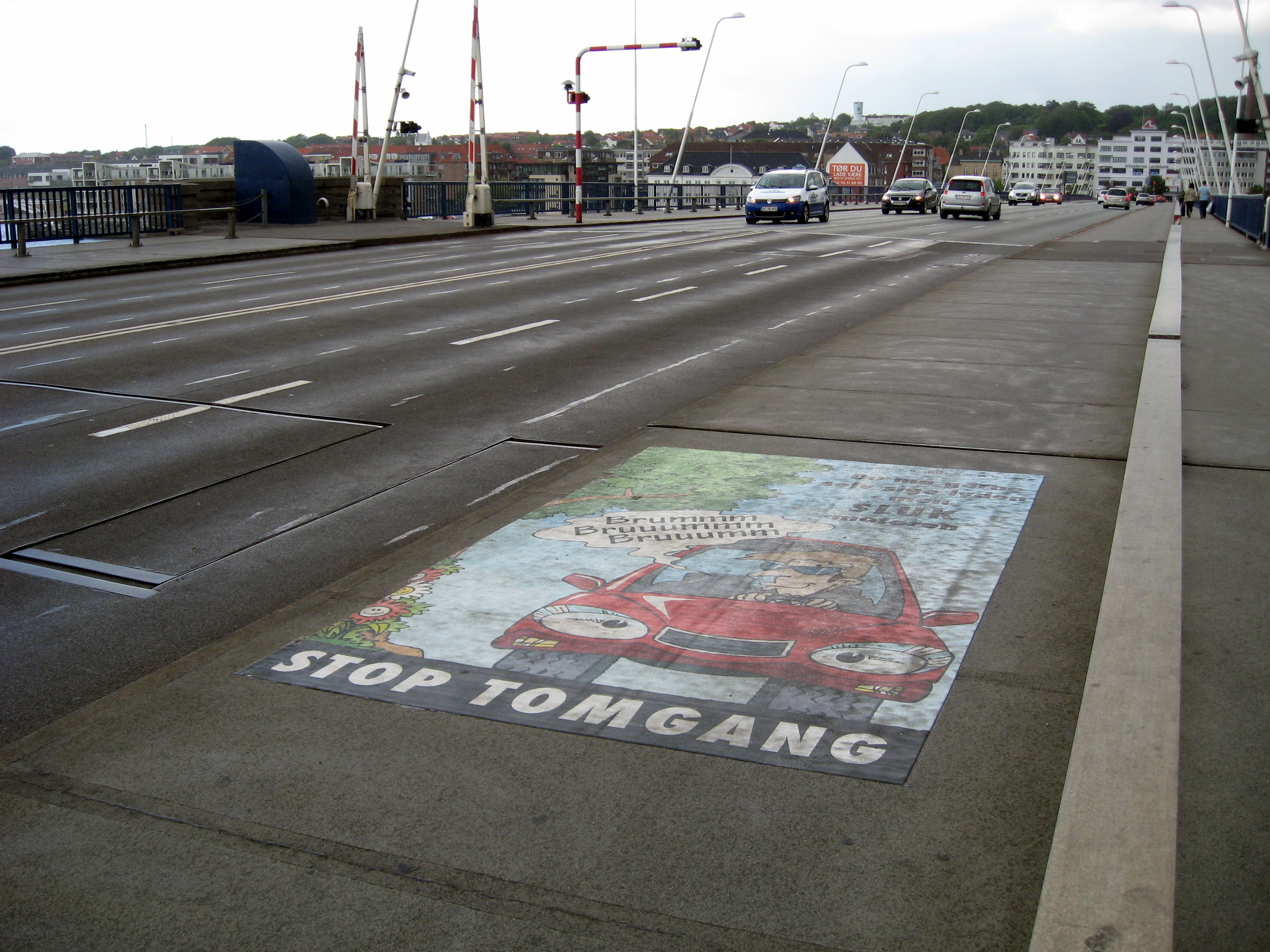 Aalborg, Northern Denmark